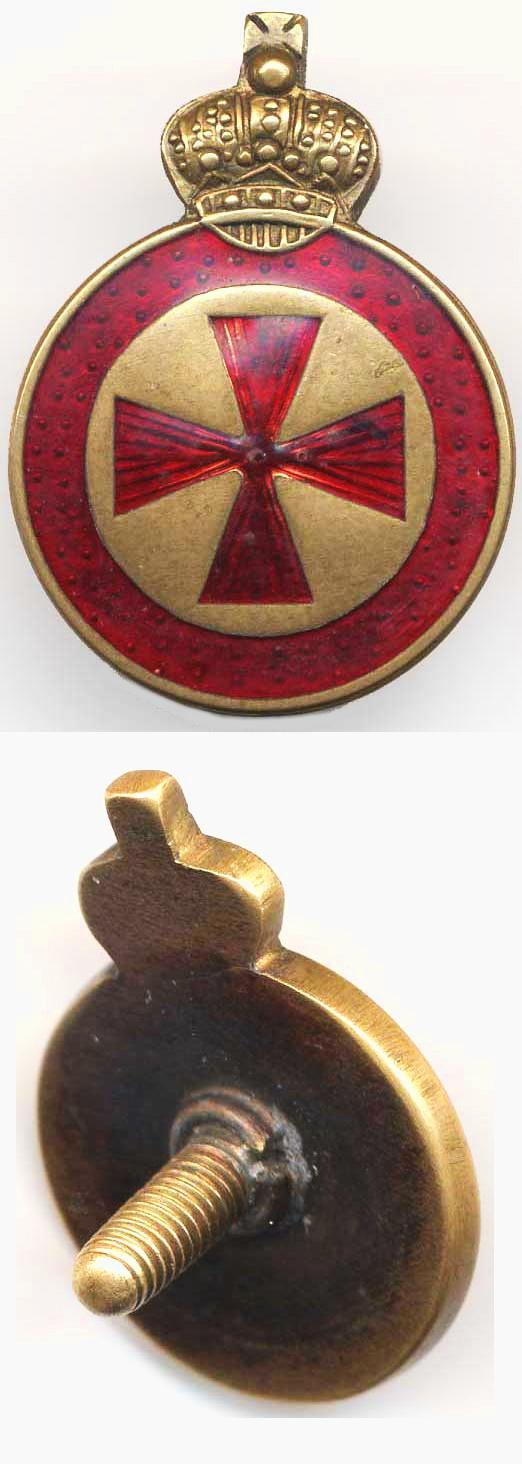 Badge to Order of St. Anna 4st